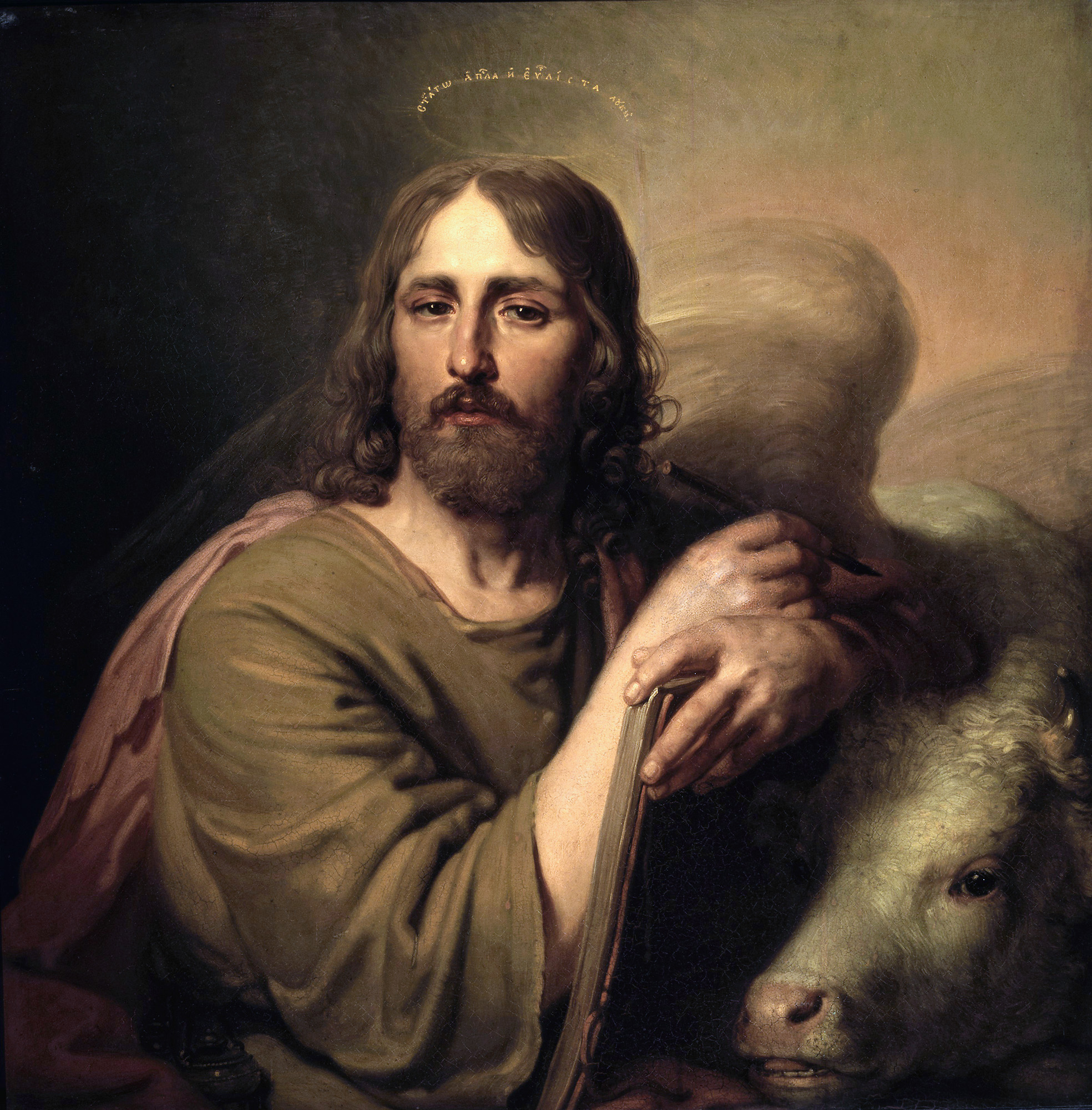 Icon from the royal gates of the central iconostasis of the Kazan Cathedral in St.-Petersburgh